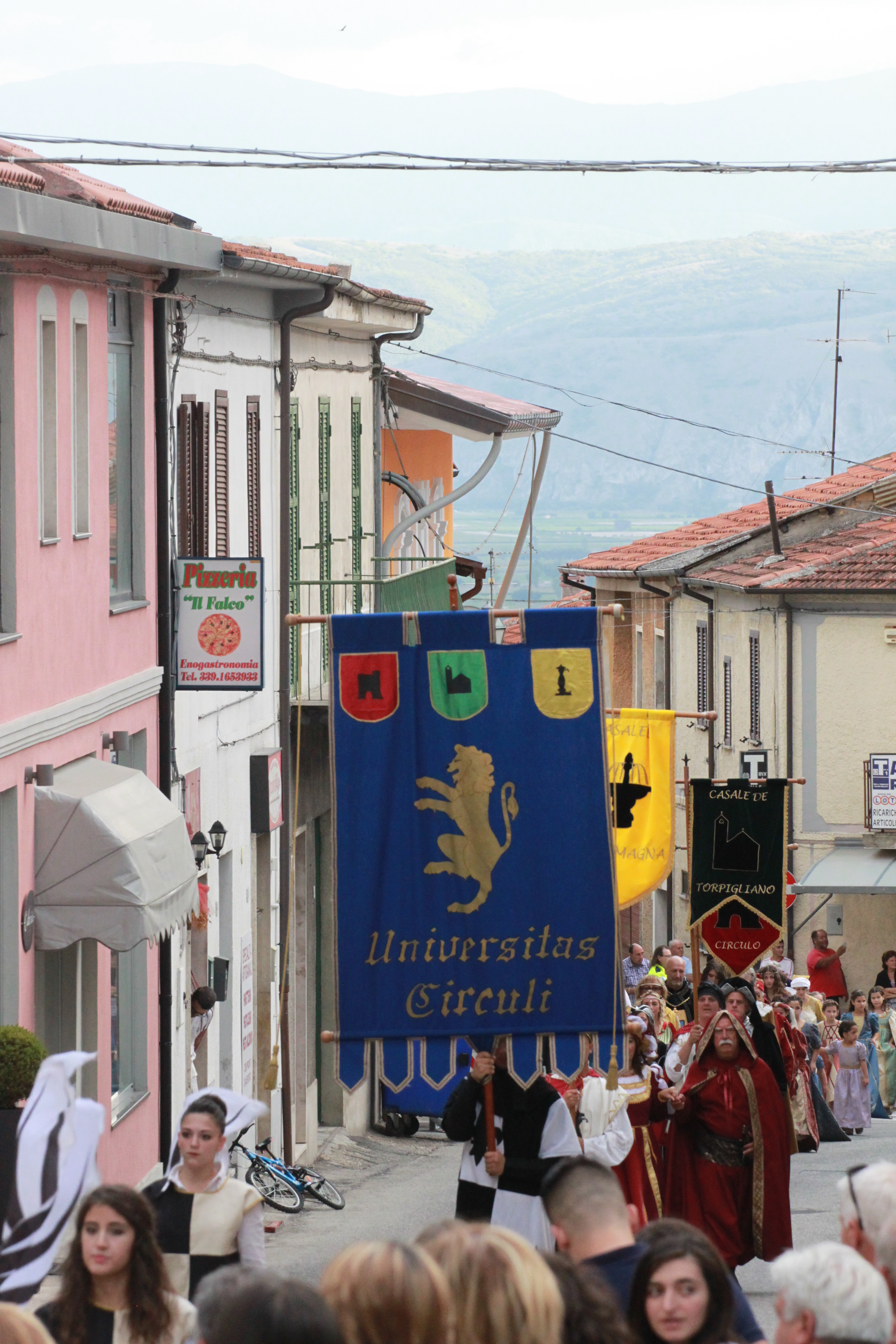 Procession historical "Bulla Indulgentiarum", Cerchio, Abruzzo, Italy